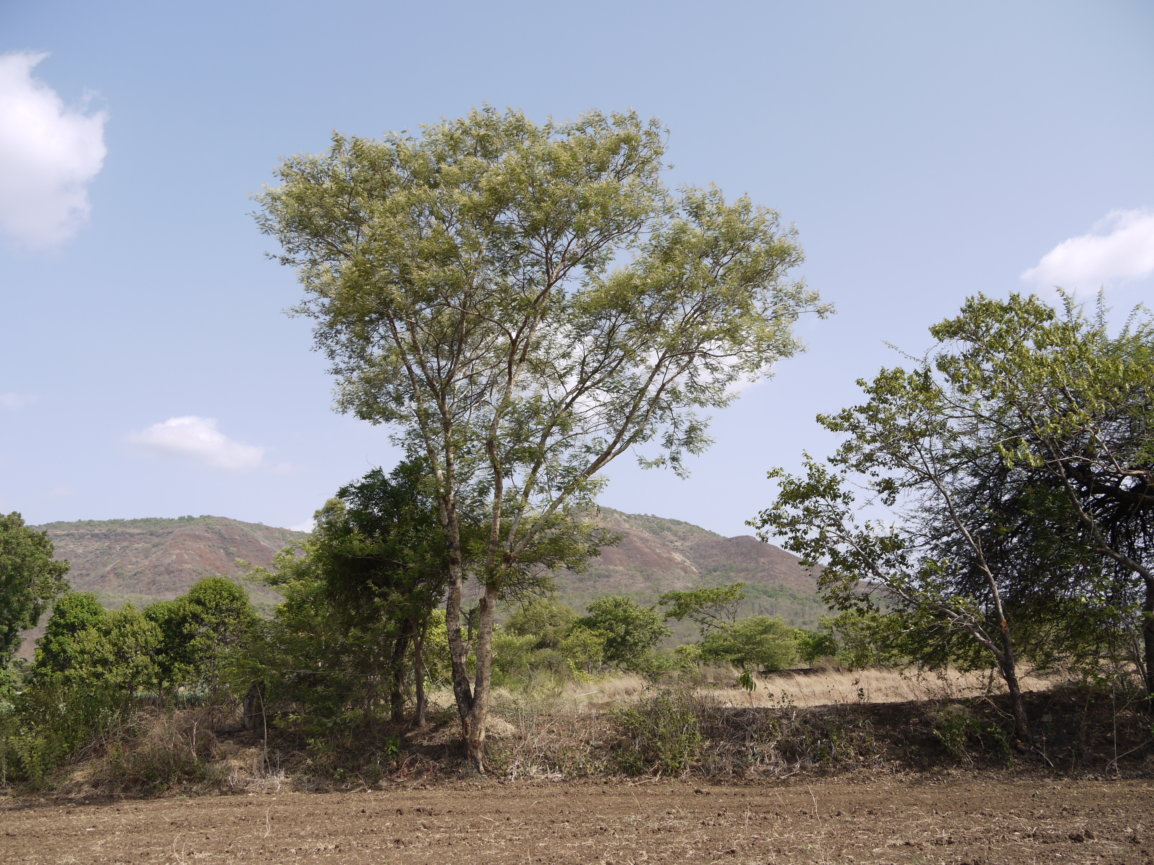 Fabaceae (pea, or legume family) » Acacia catechu a-KAY-see-uh or uh-KAY-shuh thorny, spiny KAT-eh-choo -- from the Kannada name kachu, extract from the heartwood commonly known as: black catechu, black cutch, cashoo, catechu, cutch tree, wadalee gum • Assamese: খৈৰ kher • Bengali: খয়ের khayer • Gujarati: ખેર kher • Hindi: दन्त धावन dant-dhavan, गायत्रिन् gayatrin, खैर khair, खयर khayar, मदन madan, पथिद्रुम pathi-drum, पयोर payor, प्रियसख priya-sakh • Kannada: ಕಾಚು kaachu, ಕದಿರ kadira, ಕಾದು kadu, ಕಗ್ಗಲಿ kaggali • Konkani: खैर khair • Malayalam: കരിണ്ടാലി karintaali • Marathi: खैर khair, खयर khayar, यज्ञवृक्ष yajnavrksa • Nepalese: खयर् khayar • Pali: खदिरो khadiro • Prakrit: खइरं or खाइरं khaiiram • Sanskrit: गायत्रिन् gayatrin, खदिरः or खादिरः khadira, पथिद्रुम pathi-drum, पयोर payor, प्रियसख priya-sakh • Tamil: செங்கருங்காலி cenkarungali, காசுக்கட்டி kacu-k-katti, கறை karai • Telugu: ఖదిరము khadiramu. కవిరిచండ్ర kaviricandra, నల్లచండ్ర nallacandra • Urdu: کهير khair Native to: s China, Bhutan, India, Nepal, Pakistan, Myanmar References: Flowers of India • NPGS / GRIN • DDSA